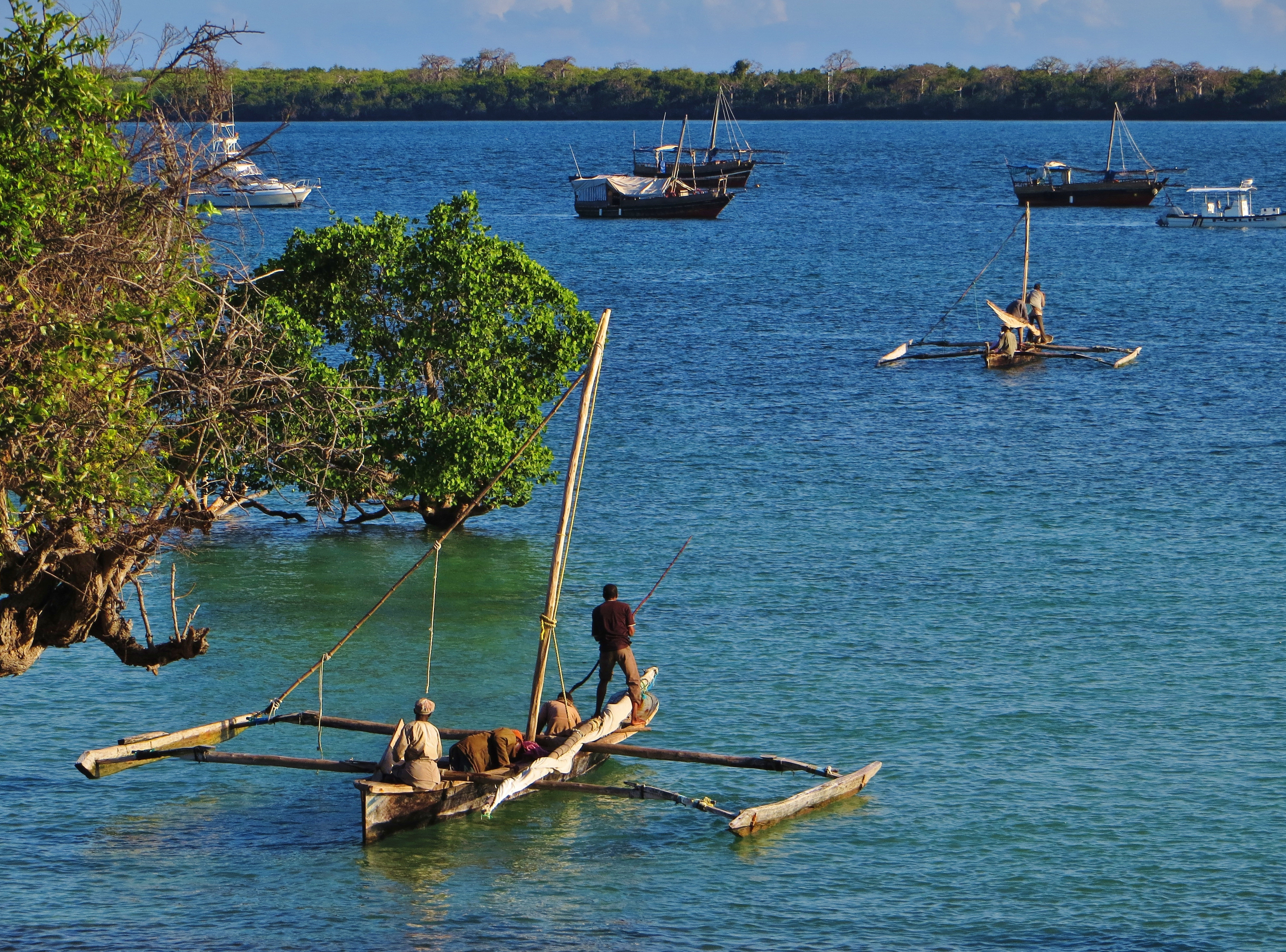 Fishermen on their traditional boats near Shimoni (Kenya).